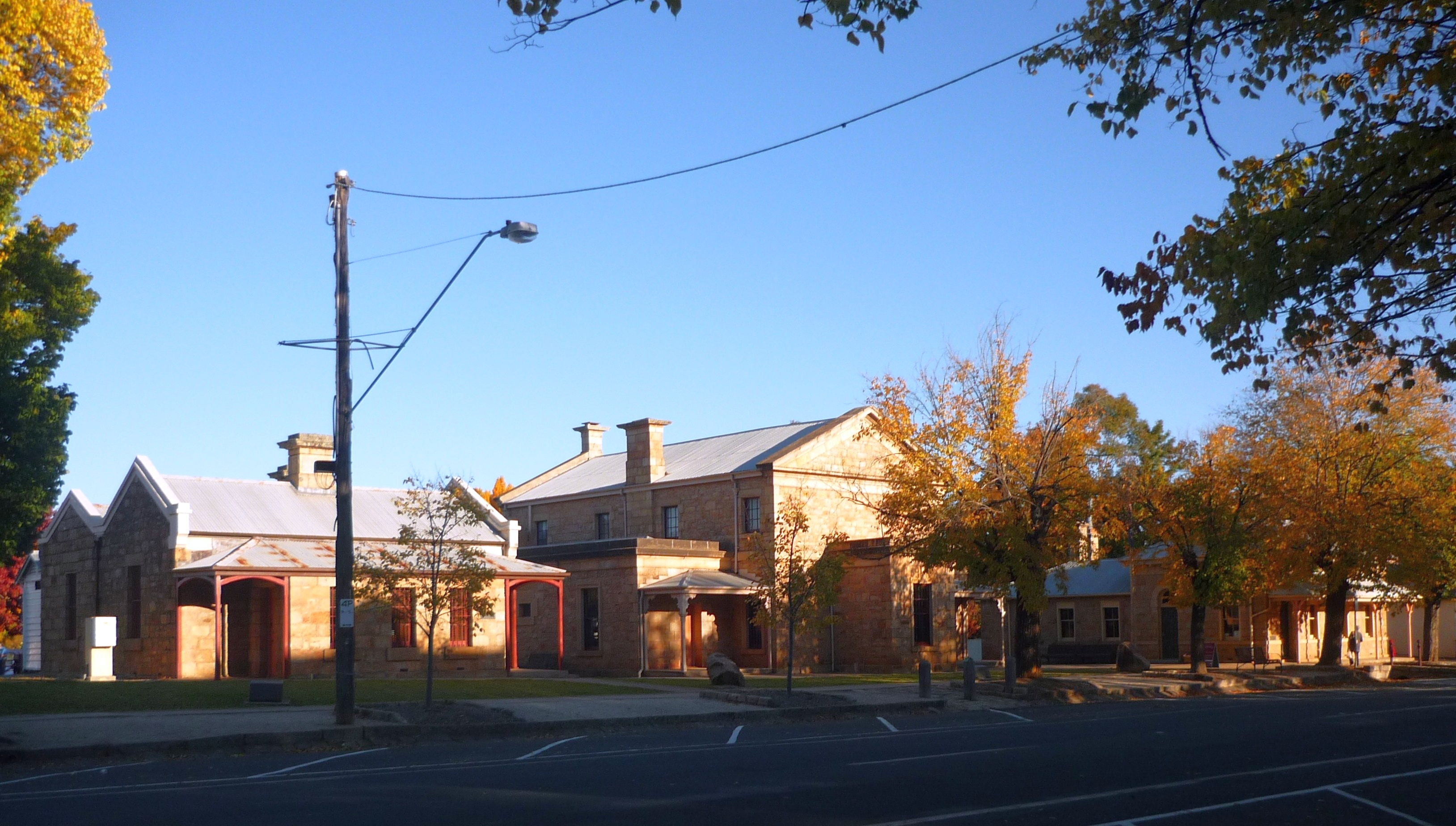 Beechworth civic centre.